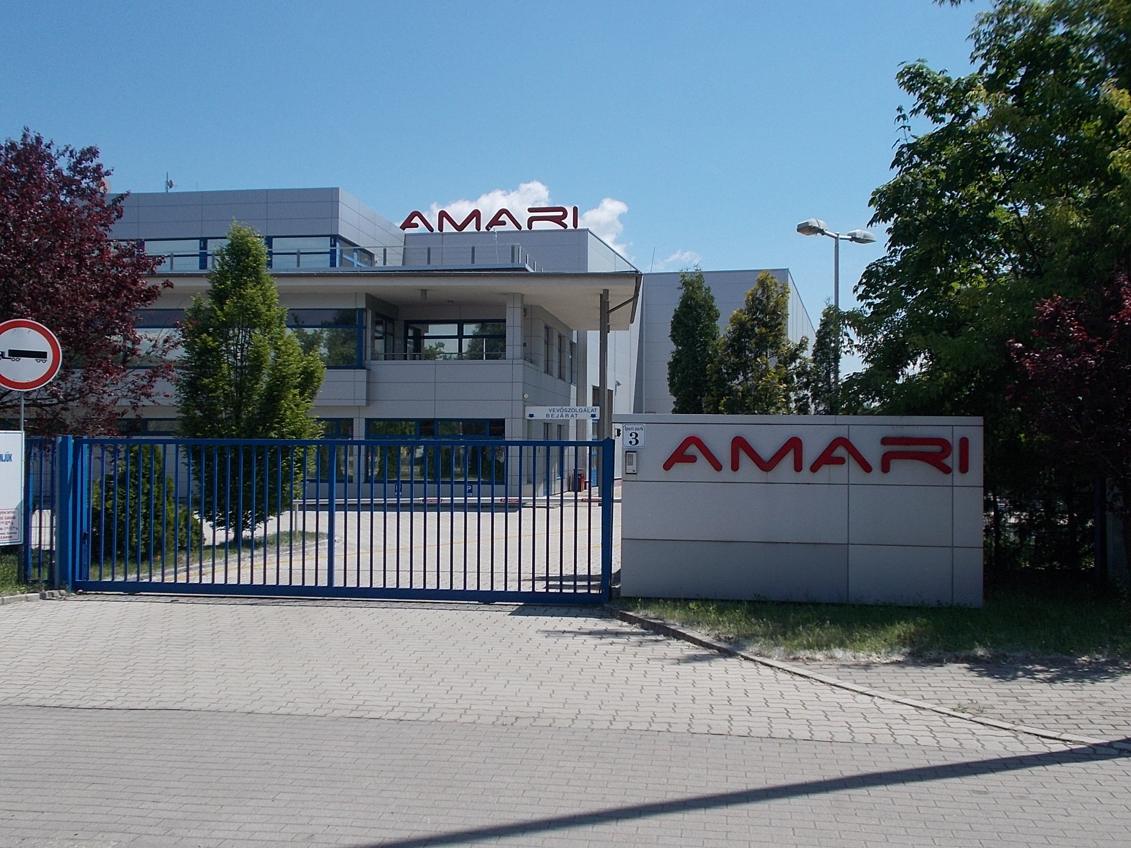 Amari Hungaria. Amari metal innovations. Aluminium and composite materials sales and processing ( amari.at ). - Újpest Industrial Park, Káposztásmegyer neighborhood, 4 district of Budapest,Hungary.